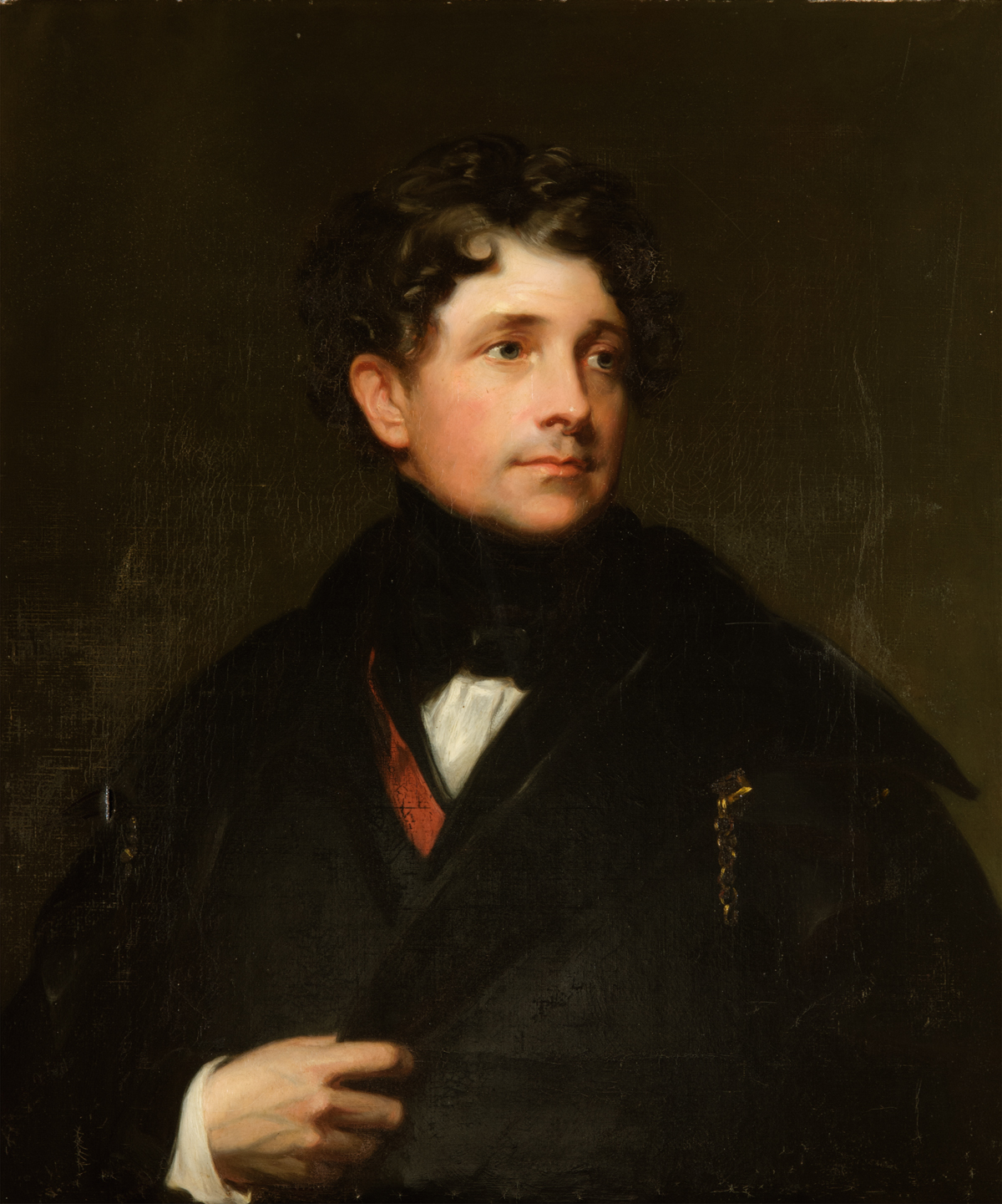 Lieutenant General Sir Thomas Bradford